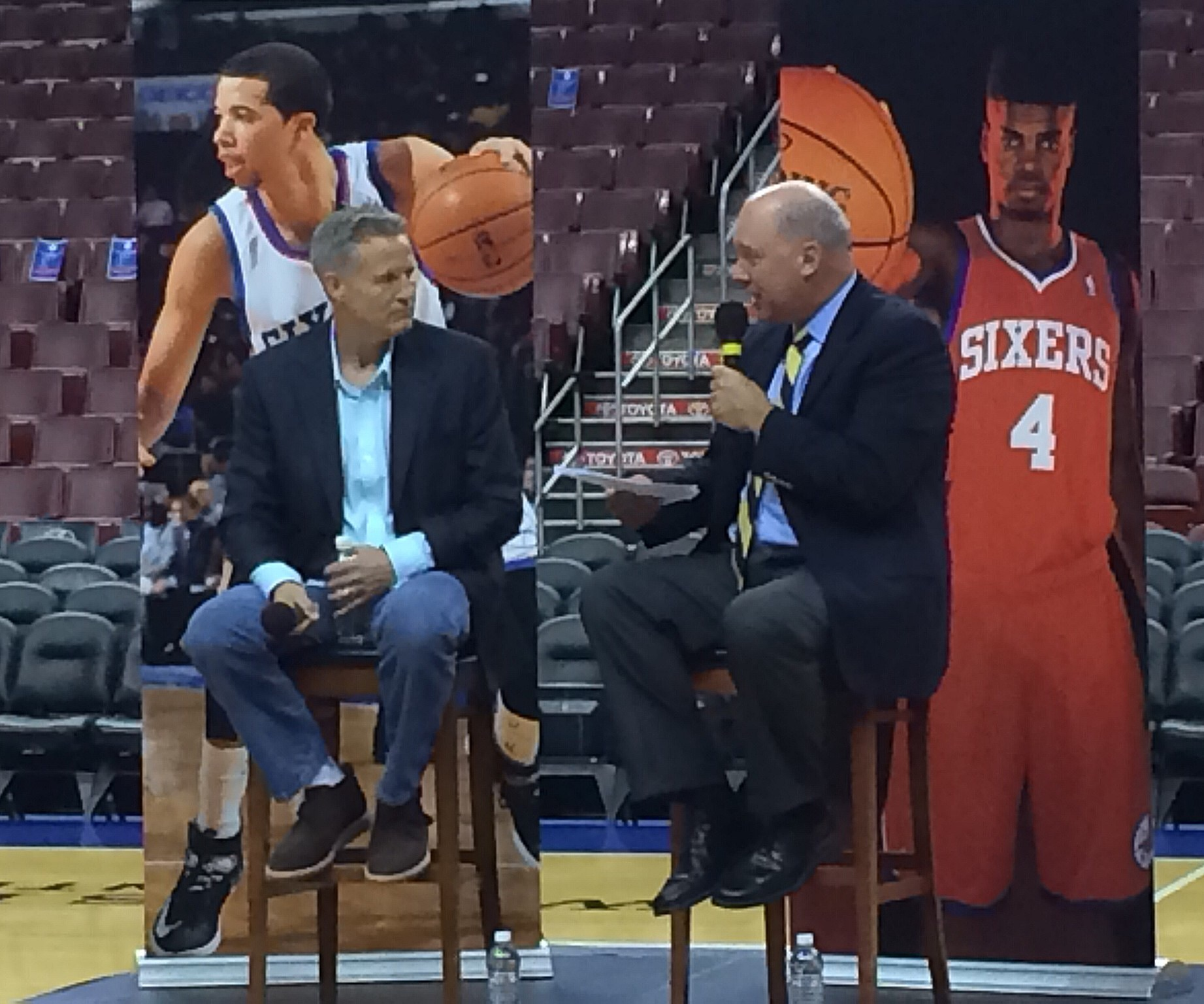 Brett Brown meets with 76ers radio announcer Tom McGinnis